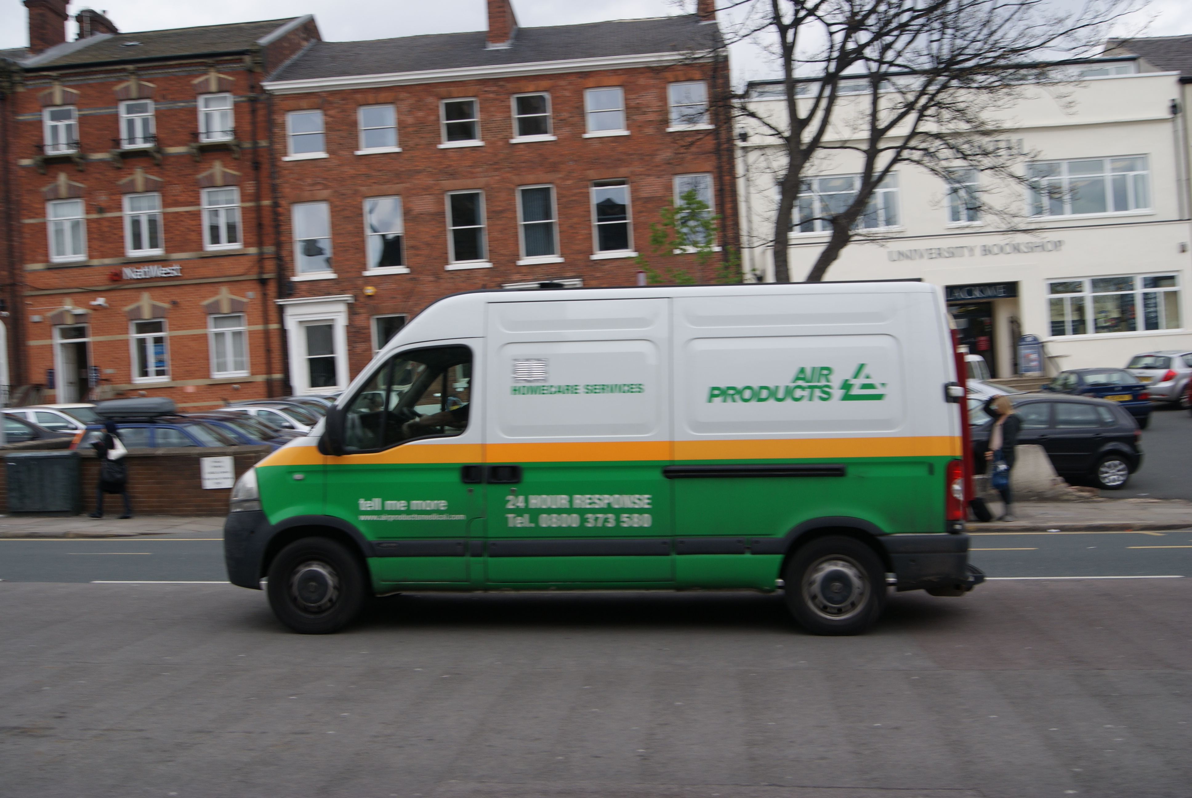 A van (Vauxhall Movano, I think however it could be a Renault Master) belonging to Air Products heading away from Leeds City Centre on the A660 Woodhouse Lane in Leeds, West Yorkshire. Taken on the afternoon of Tuesday the 4th of May 2010.